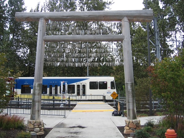 A picture of the unique theming of the Portland MAX light rail Expo station which is currently (August 2007) the terminus of the Yellow Line. I (cransdell) took the picture with a Canon S500 digital camera.